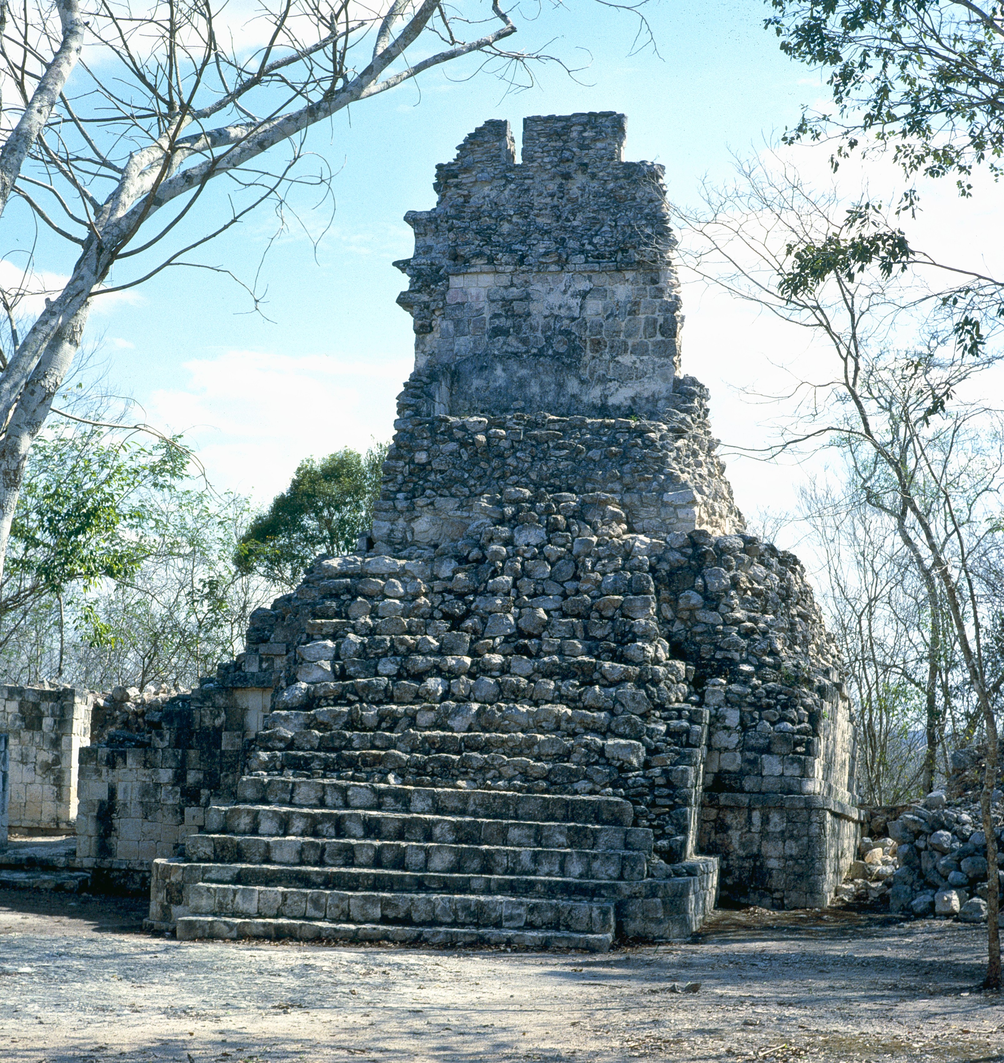 Hochob, Campeche, Mexico: building VI